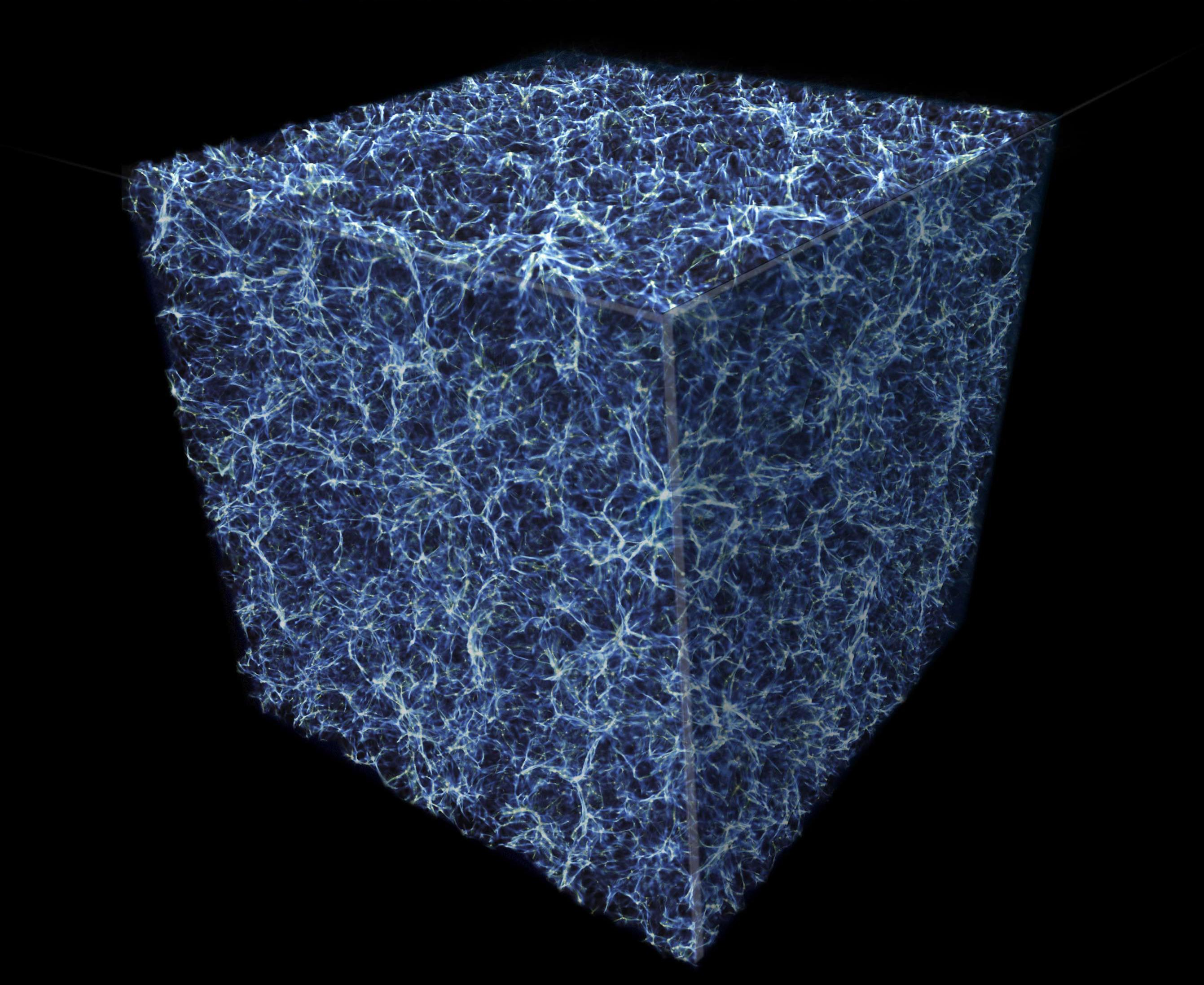 This graphic represents a slice of the spider-web-like structure of the universe, called the "cosmic web." These great filaments are made largely of dark matter located in the space between galaxies. Credit: NASA, ESA, and E. Hallman (University of Colorado, Boulder)